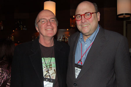 Australian author Rob Hood (left) and American author Peter Straub (right) at the World Fantasy Convention.